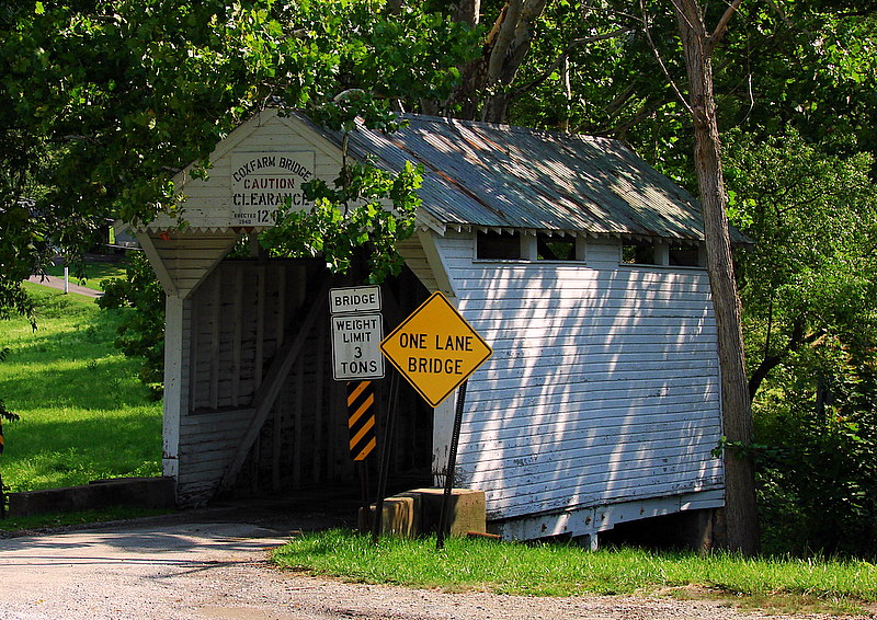 Lippincott Covered Bridge or Cox Farm Covered Bridge, built in 1943 over Ruff Creek in Morgan Township in Greene County, Pennsylvania, USA. Original description from Flickr: located in Lippincott built in 1940